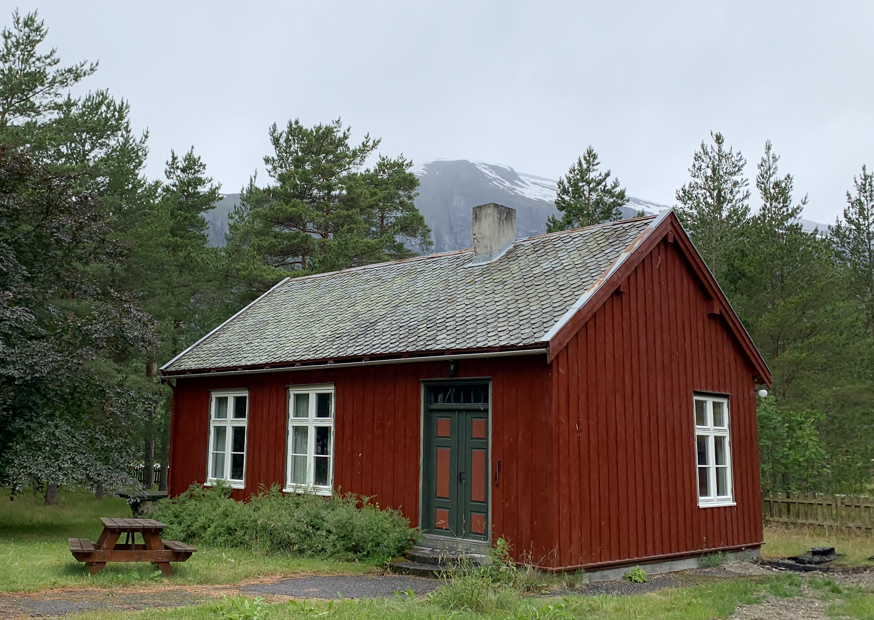 Old School in Eikesdalen, replaced next to the new School